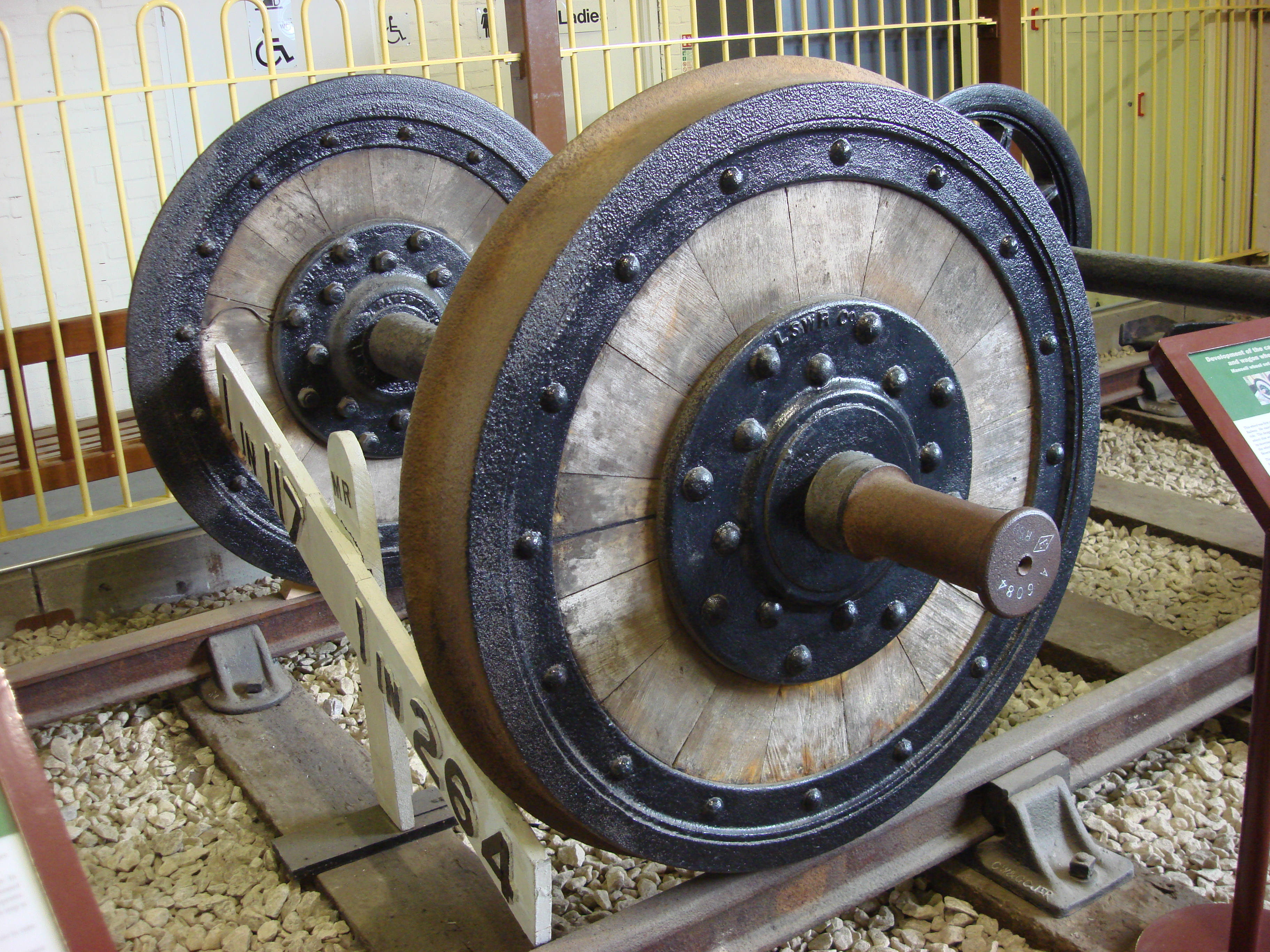 Mansell wheel set of a type first patented in 1848 at the Buckinghamshire Railway Centre